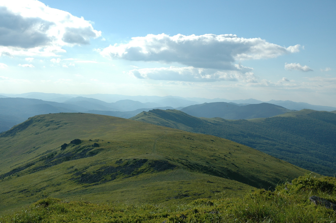 The Bieszczady Mountains, a view from Pikuy